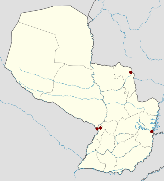 Location map of Paraguay Equirectangular projection, N/S stretching 110 %. Geographic limits of the map: * N: 19.0° S * S: 27.9° S * W: 62.9° W * E: 54.0° W